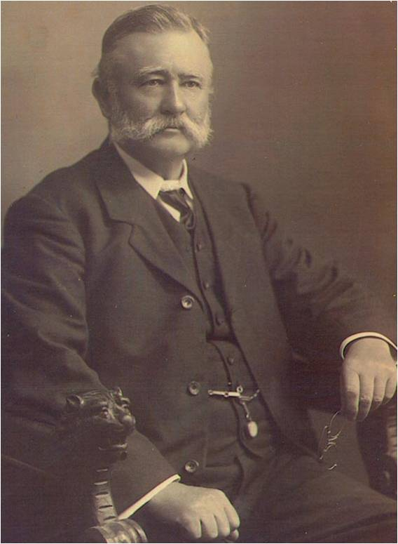 Photographs of the Baptist Reverend James Thompson in 1853 in London, England